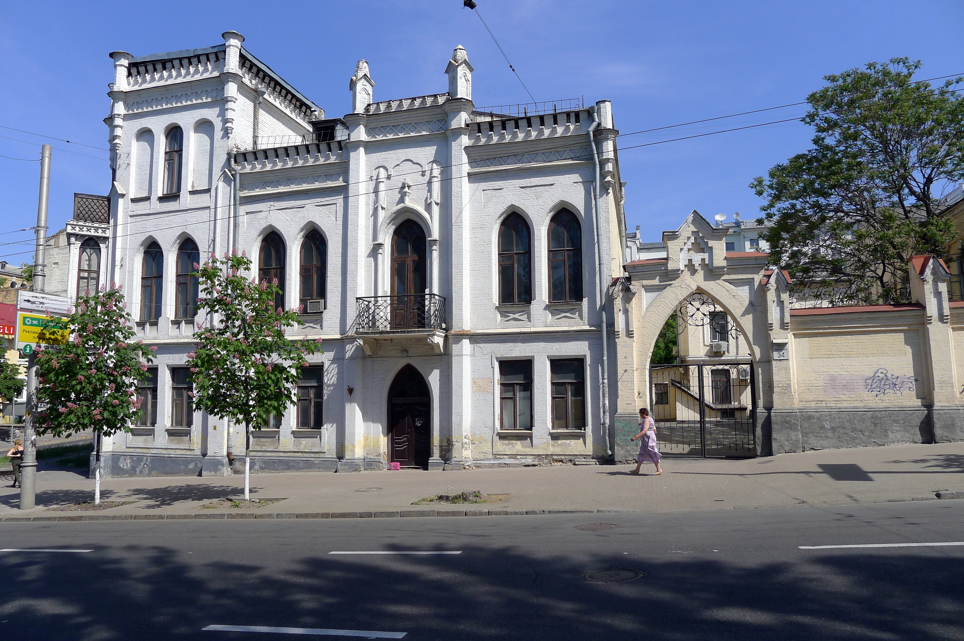 Kiev, blvd. Tarasa Shevchenko, 34